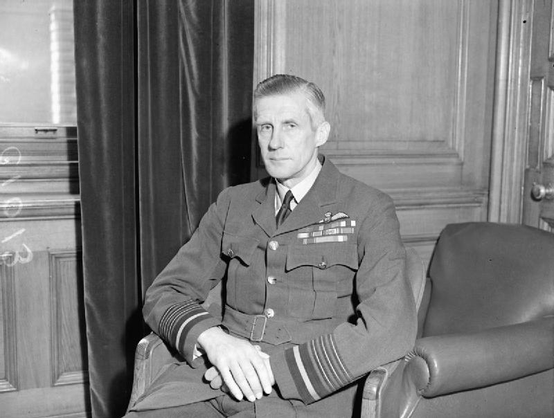 Royal Air Force Bomber Command, 1939-1941. Air Chief Marshal Sir Edgar Ludlow-Hewitt, Air Officer Commanding-in-Chief Bomber Command, sitting in his office at Headquarters Bomber Command, High Wycombe.